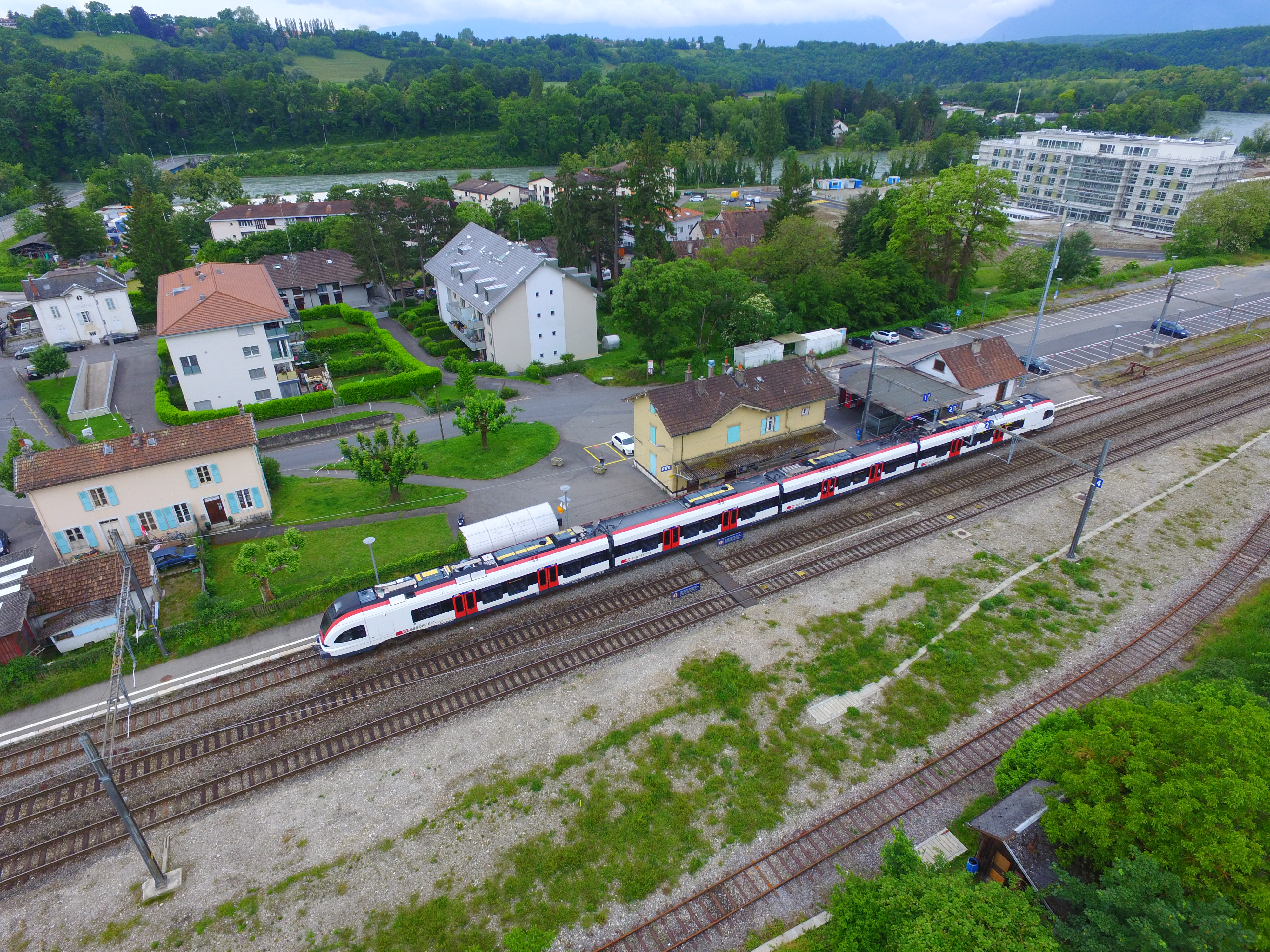 La Plaine train station, aerial view